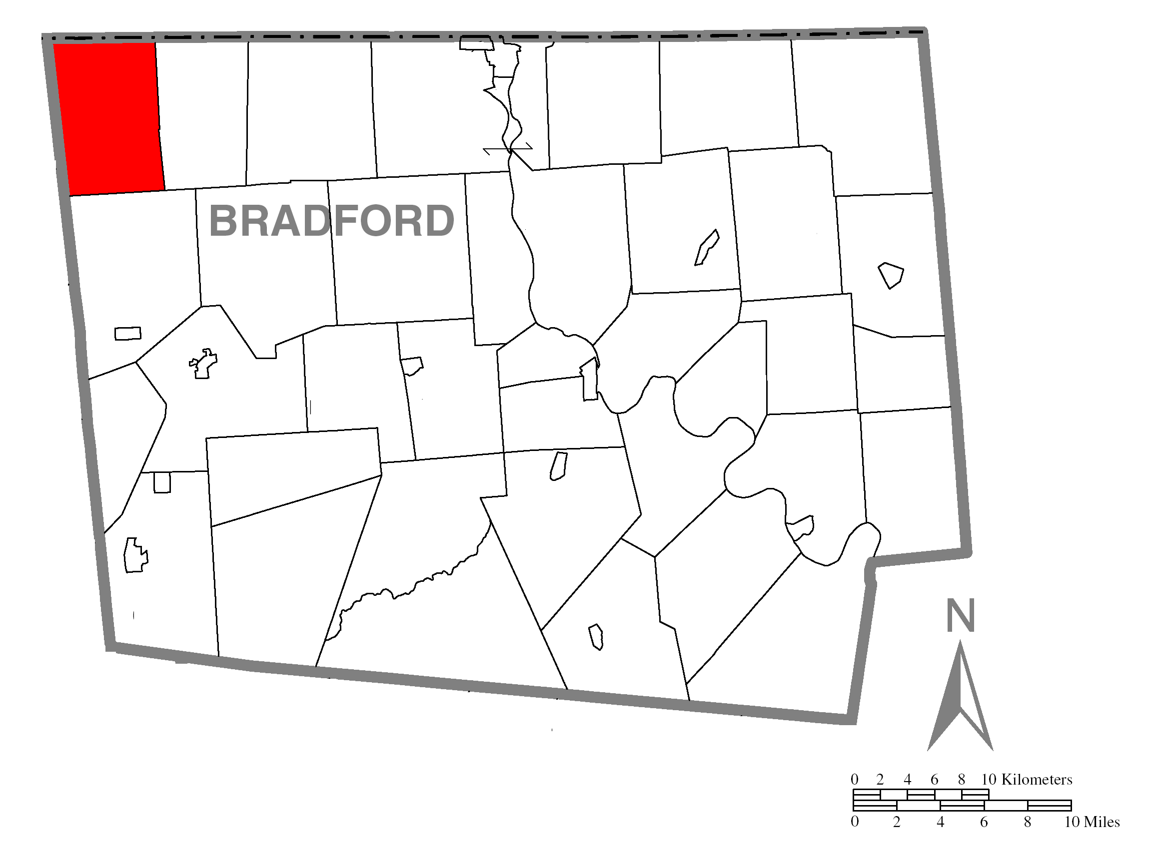 A map of Bradford County showing Wells Township, Pennsylvania (alternate) highlighted on the map.